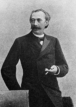 Pavel Vasilievich Alish (1842—after 1917), the Russian architect. From the book: Кренгольмская мануфактура: Историческое описание, составленное по случаю 50-летия её существования. — СПб., 1907.